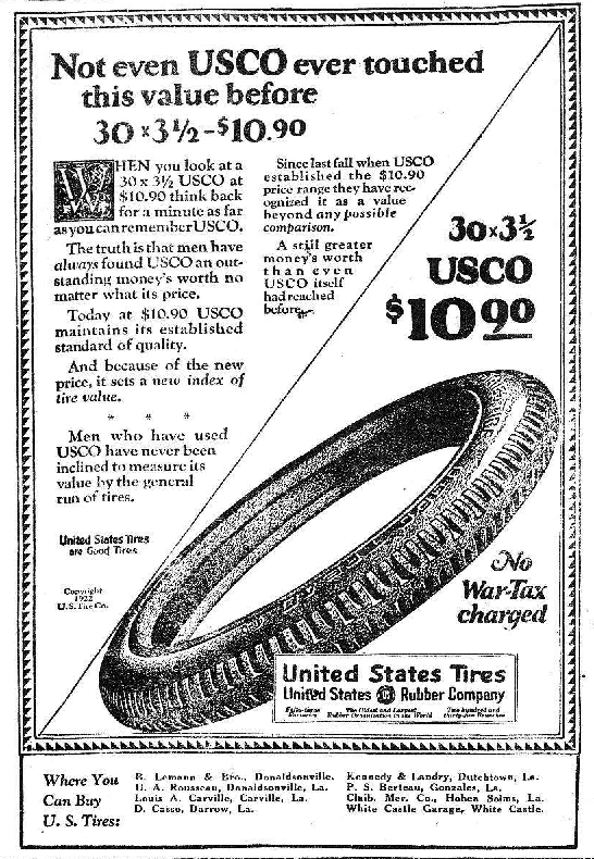 United States Rubber/Tire ad from a Louisiana newspaper, 1922.